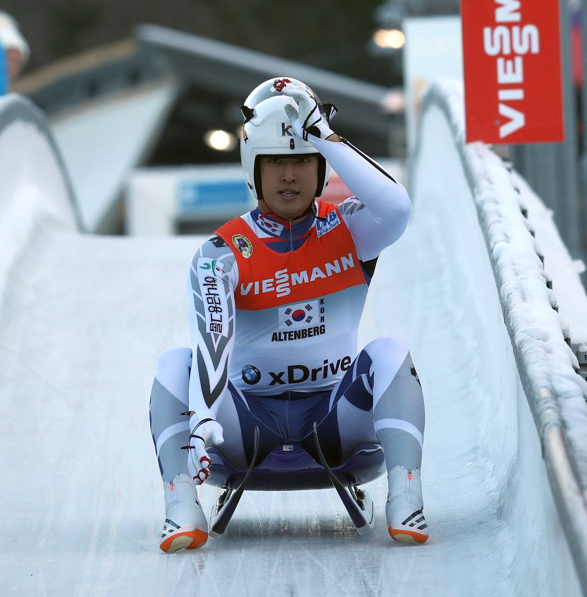 Team relay race at the Altenberg luge world cup 2017/18: Namkyu Lim